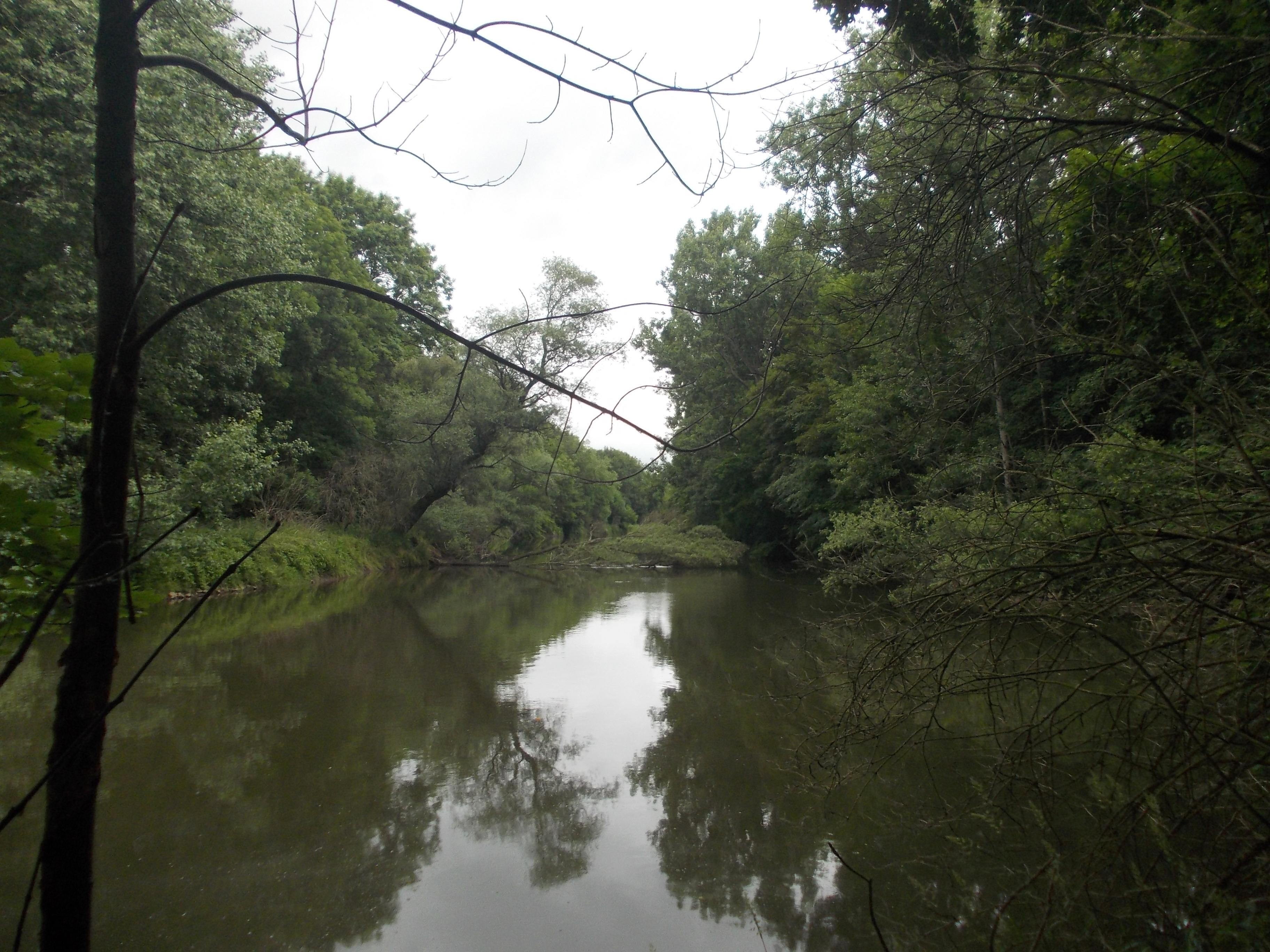 Wilde Saale, a branche of the Saale river, view from Rabeninsel ("Raven Island") in Halle (Saxony-Anhalt)